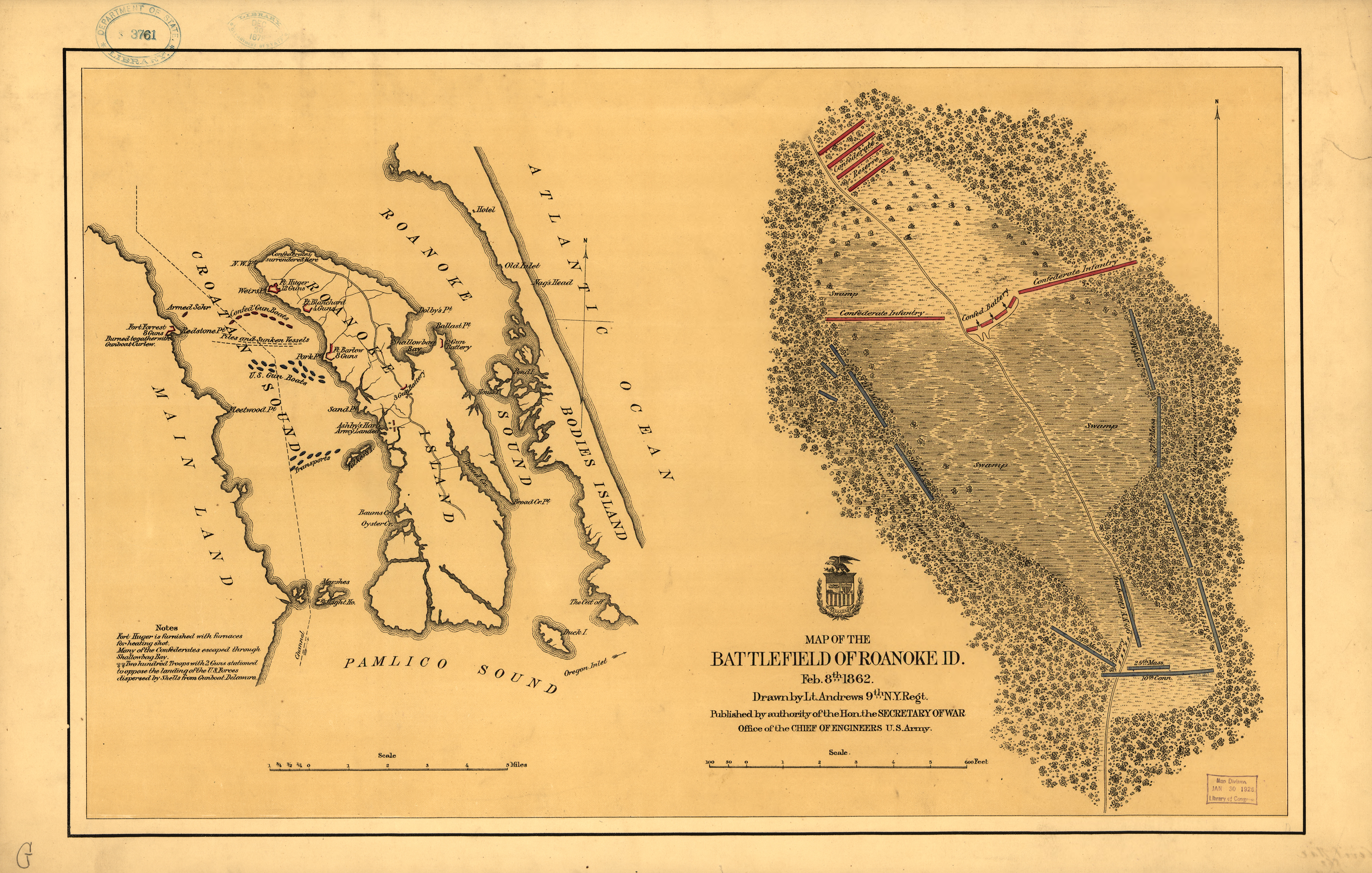 Maps of Roanoke Island and the battlefield on the island, showing Confederate defenses and attacking Union forces. Copied and reduced in size from Library of Congress.[1]